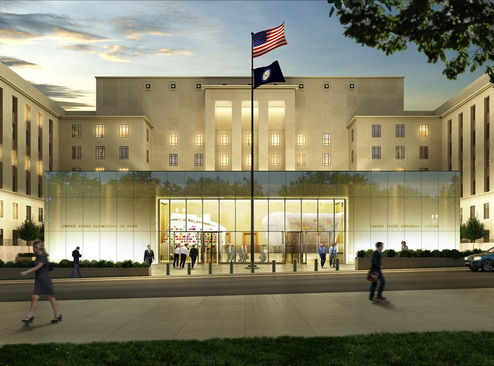 Rendering of the future Diplomacy Center, on the 21st Street entrance of the Harry S Truman Building (Photo and rendering by the U.S. Department of State, Bureau of Public Affairs)